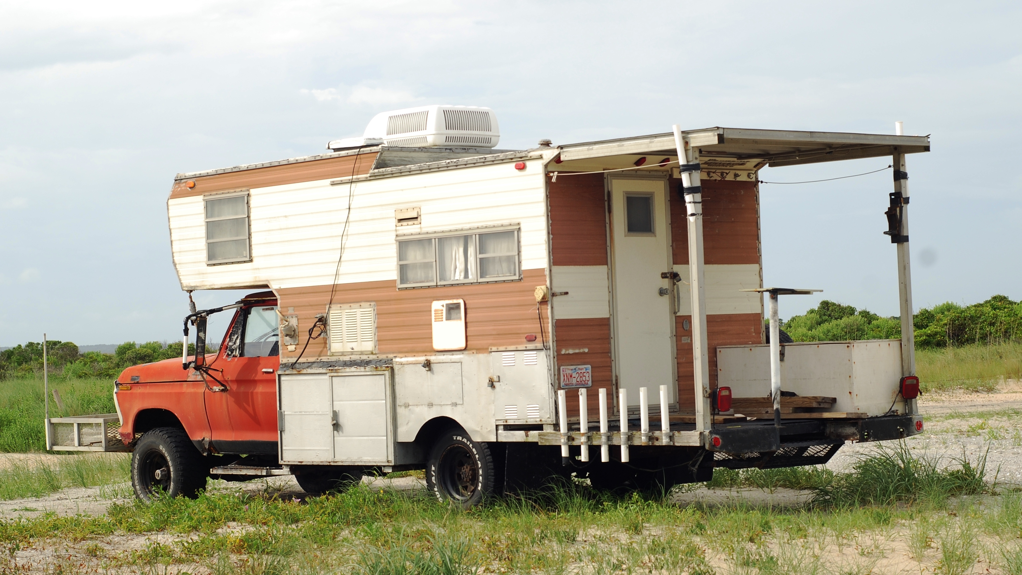 Recreational vehicle from Core Banks, North Carolina, customized for beach driving and offshore fishing.